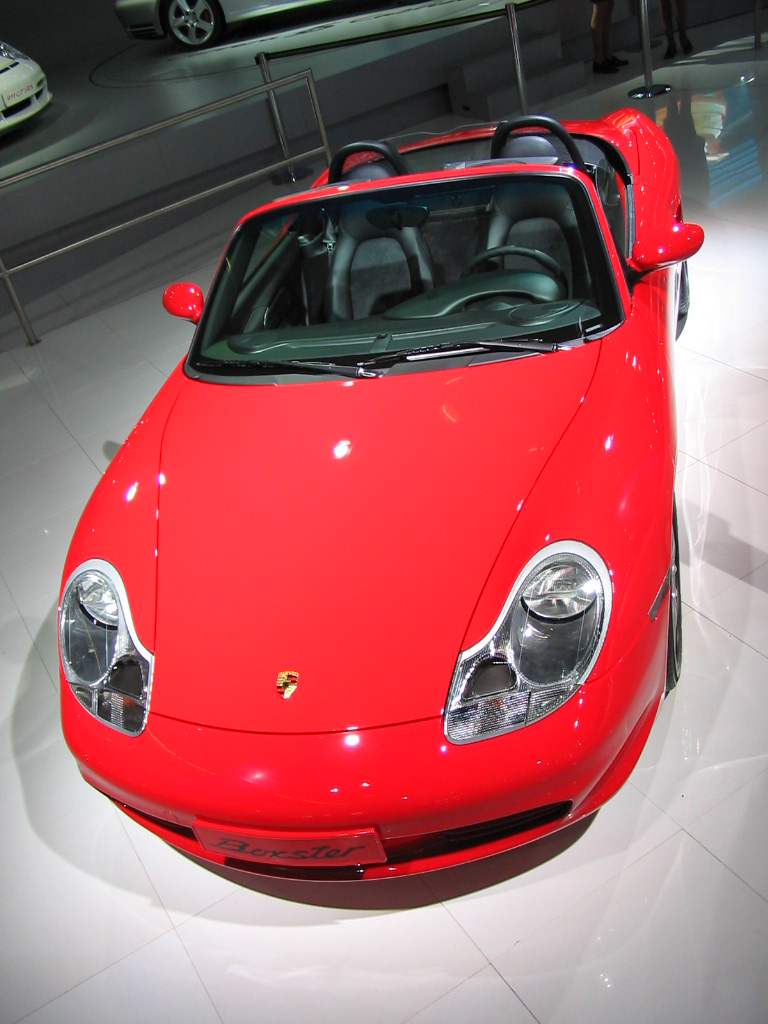 Red Porsche Boxster (Type 986). Photo taken at IAA.